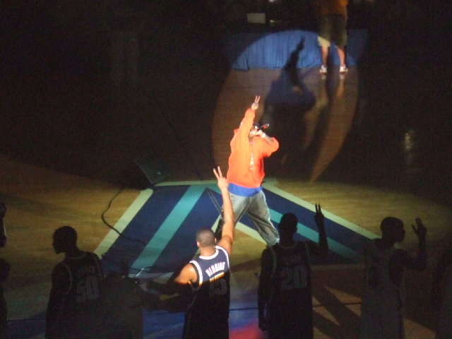 Picture of Tony Yayo at Villanova Hoops MAnia Summary Captioned As { }